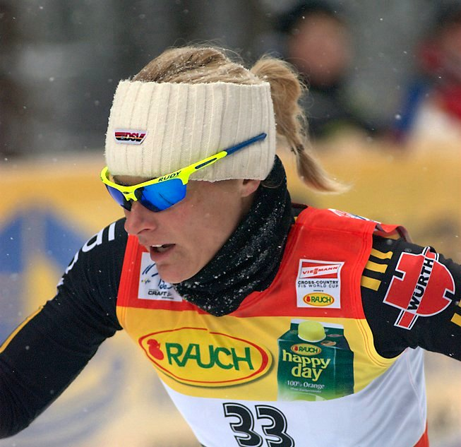 Claudia Nystad at the Tour de Ski 2010 in Oberhof